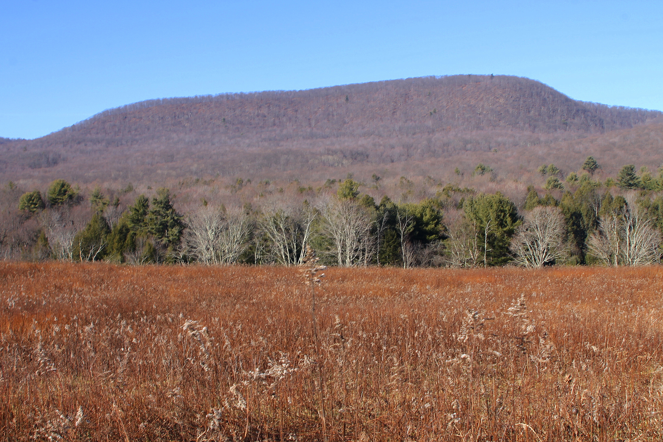 The eastern part of Central Mounain from Pennsylvania Route 118